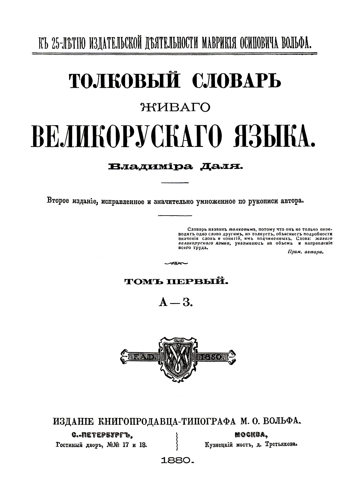 Title of Explanatory Dictionary of the Live Great Russian language. 2nd ed. (1880–1883), Vol. 1.